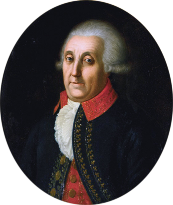 Count Christian Louis Casimir of Sayn-Wittgenstein-Ludwigsburg (1725-1797) oil on canvas 65 x 54.5 cm 19th century